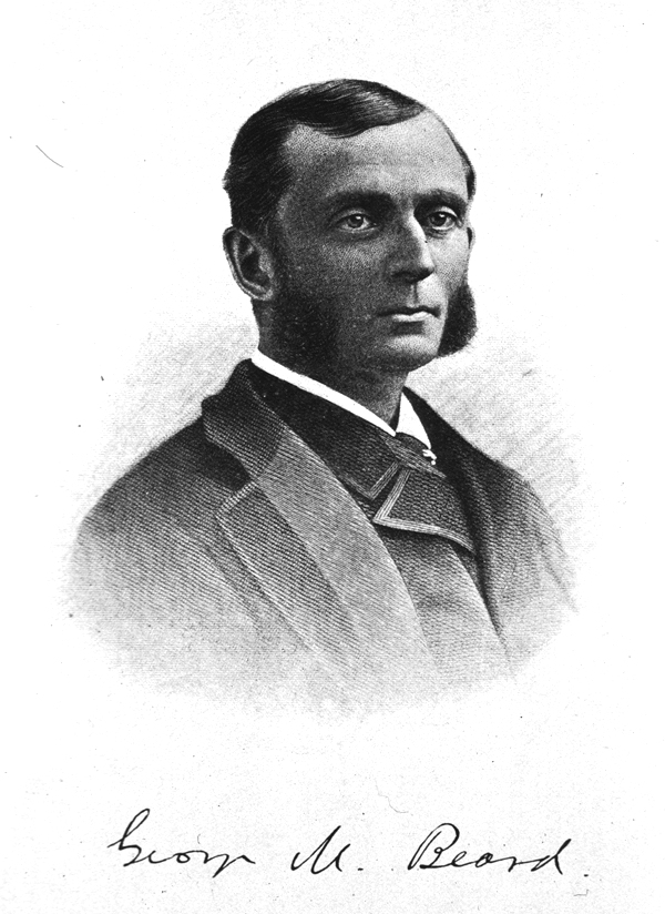 George Beard, M.D. (1837-1883)